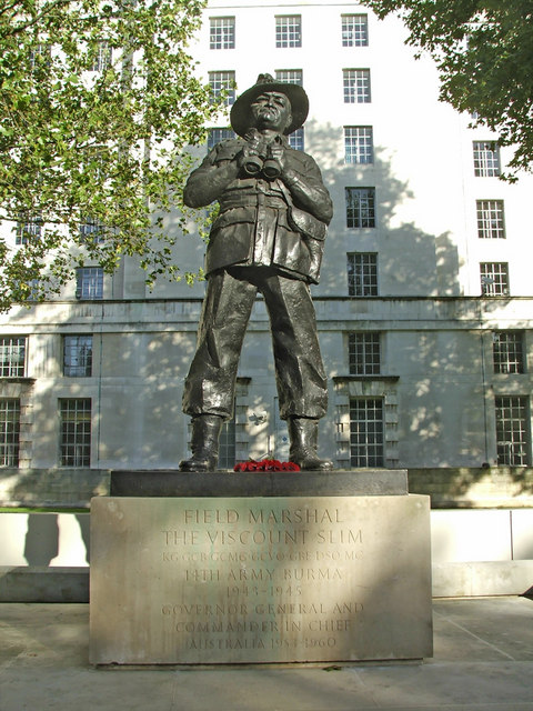 Statue of Field Marshal the Viscount Slim, Whitehall, London Statue of Field Marshal The Viscount Slim, KG GCB GCVO GBE DSO MC,14th Army Burma, 1943 - 1945, Governor General and Commander in Chief Australia 1953 - 1960.